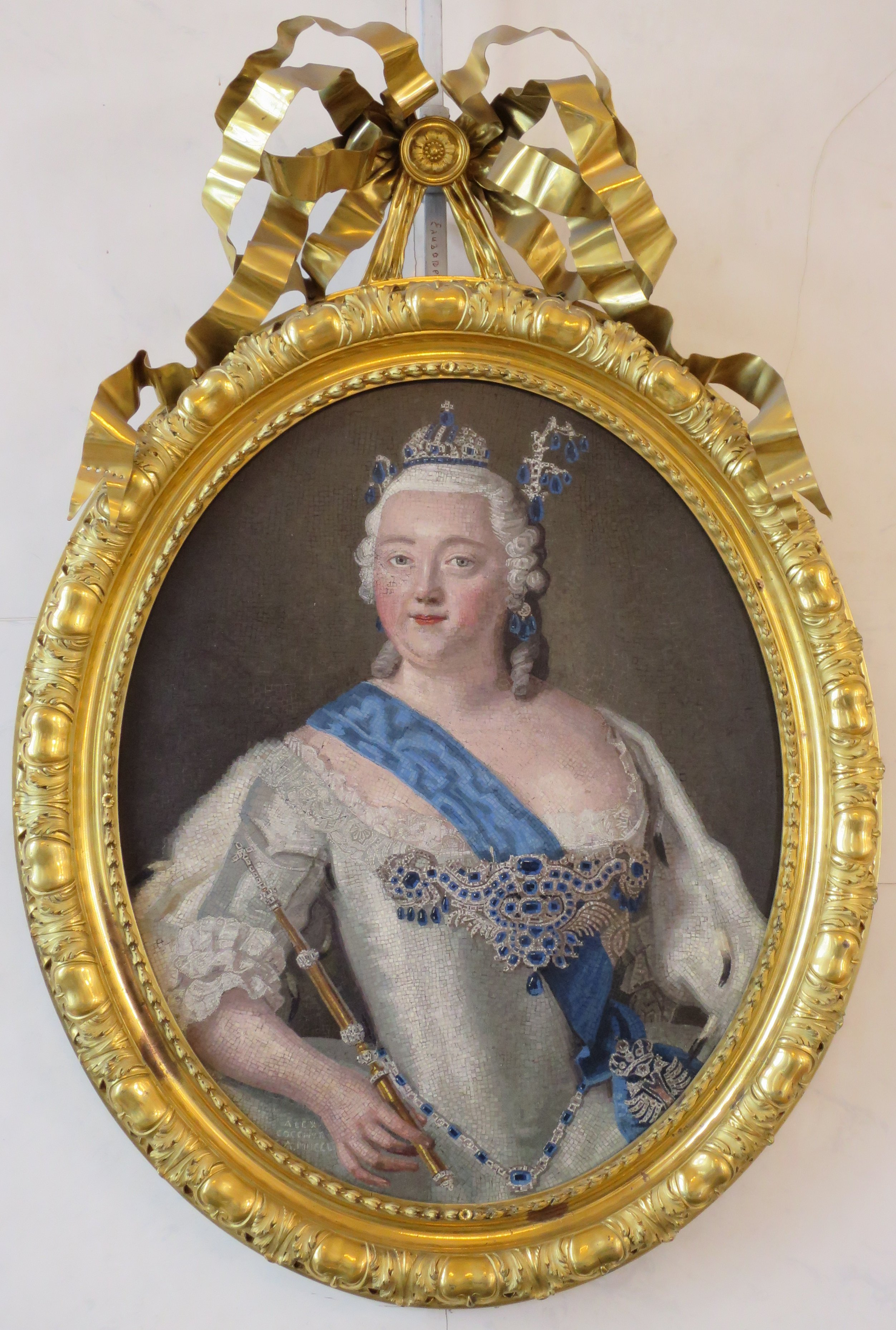 Micromosaic portrait of Empress Elizabeth Petrovna by Luigi Alessandro and Valadier Cocchi with ormolu frame, mosaic 95x78 cm, Italy. 1750, The Hermitage